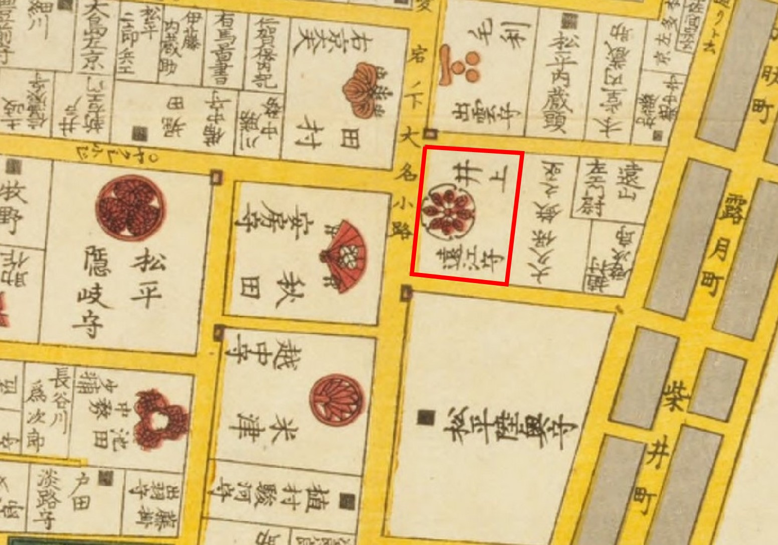 Residence of Inoue clan a at Edo